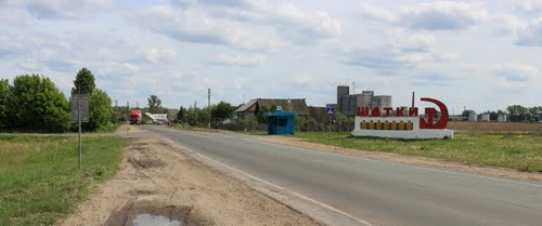 At the entry to settlement Shatki, Nizhny Novgorod Oblast.